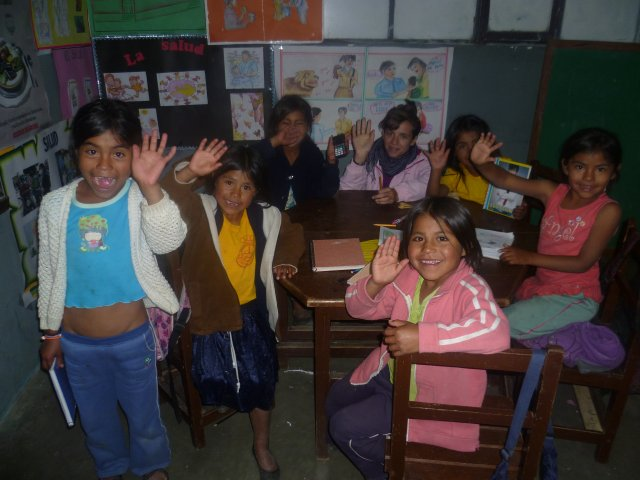 Aspecto de un aula en Sacabamba